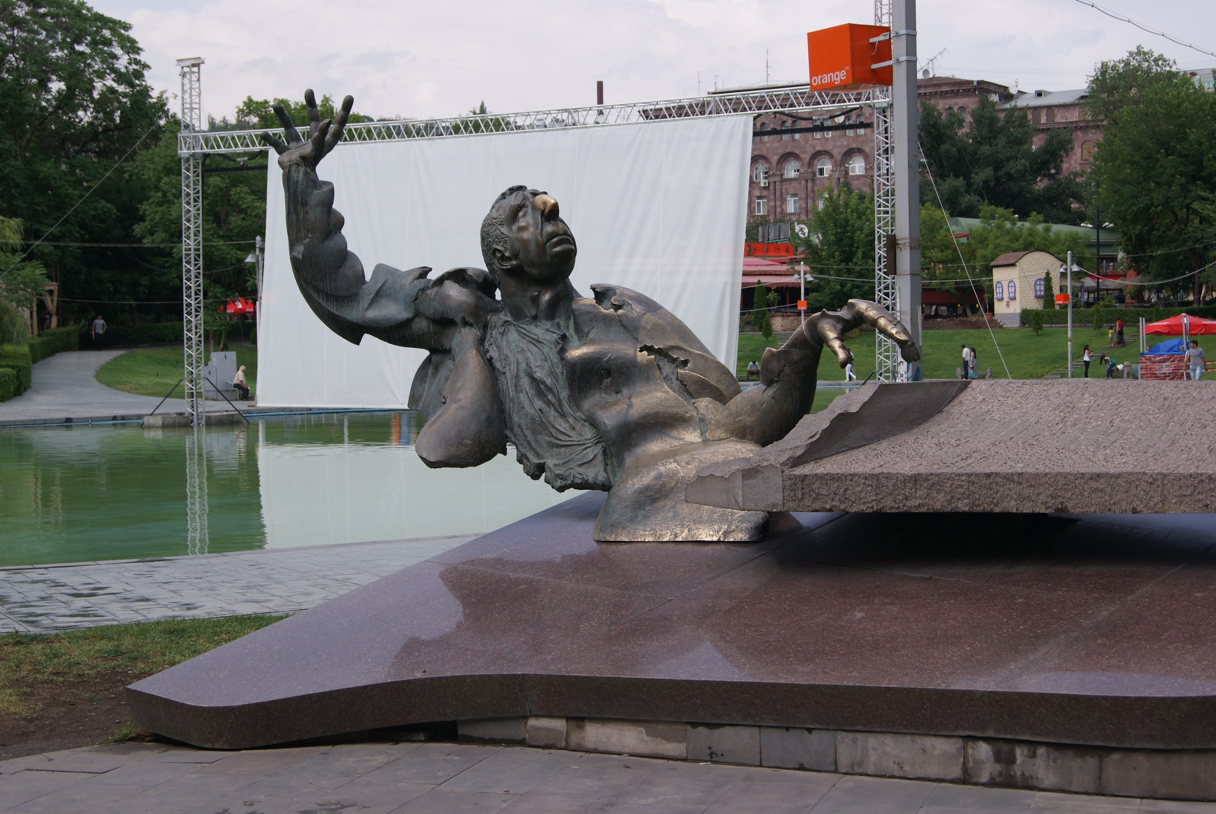 Առնո Բաբաջանյան - բրոնզ և գրանիտ, հեղինակ` Դավիթ Բեջանյան, ճարտարապետ Լևոն Իգիթյան։ Տեղադրվել է 2003 թվականին Ազատության հրապարակի հարակից տարածքում, Կարապի լճի մոտ, Տերյան և Թումանյան փողոցների խաչմերուկում։